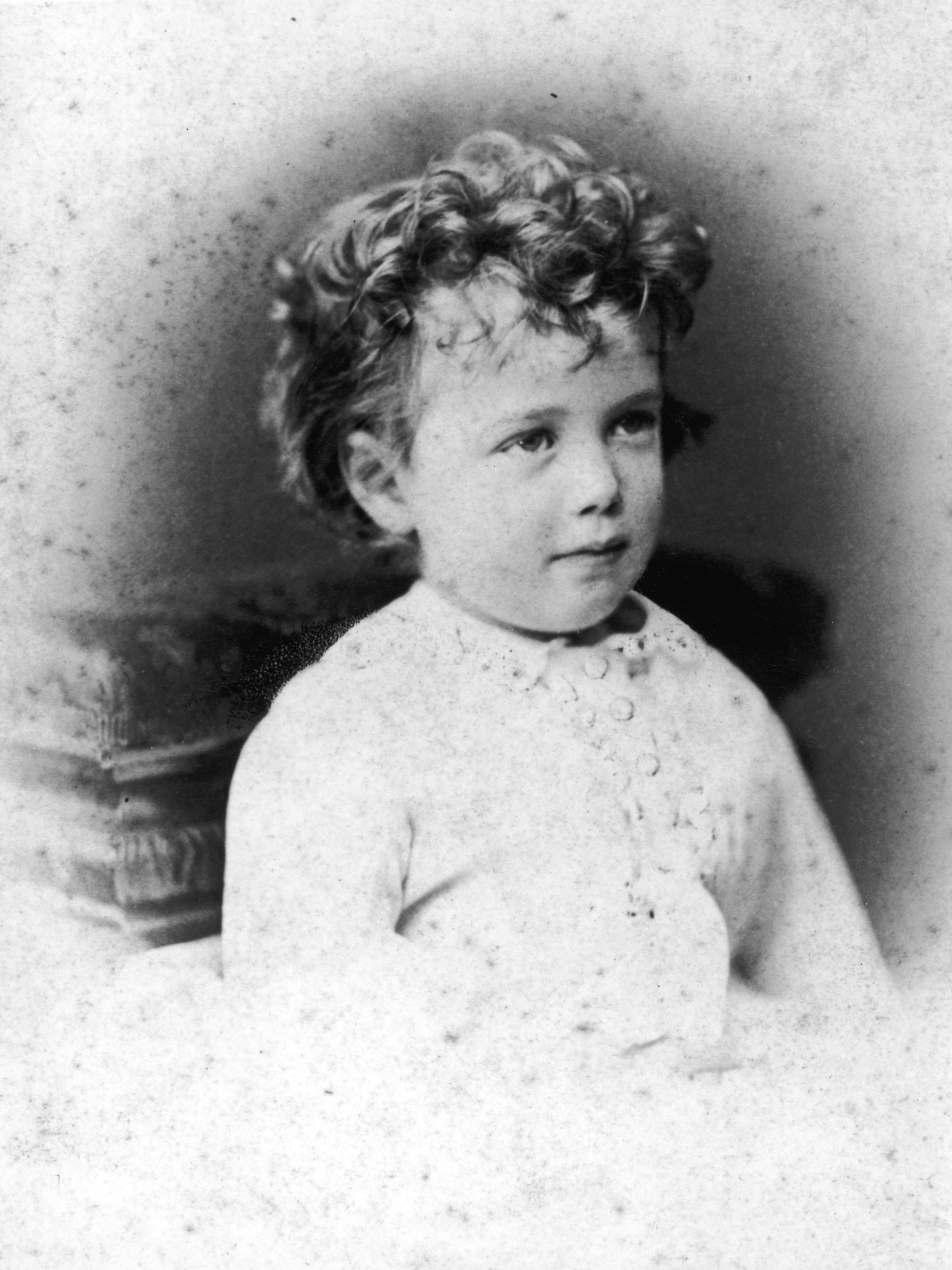 Nicholas II of Russia as a child.